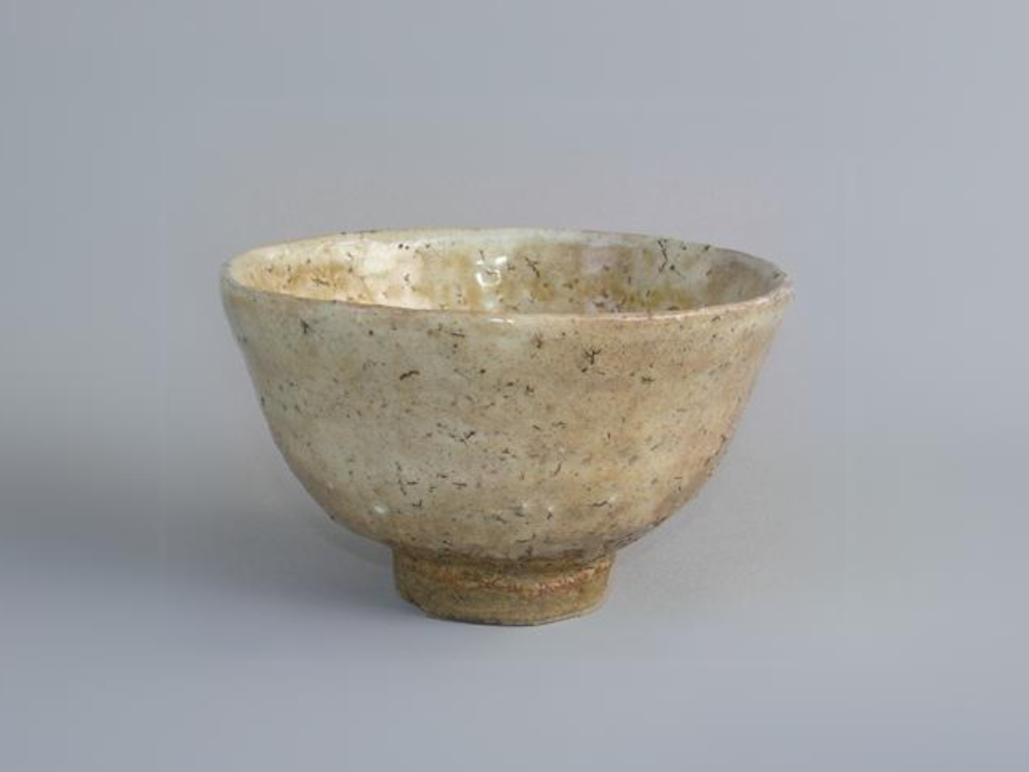 Hagi Ido teabowl, by Tamamura Shogetsu (1918-1986).